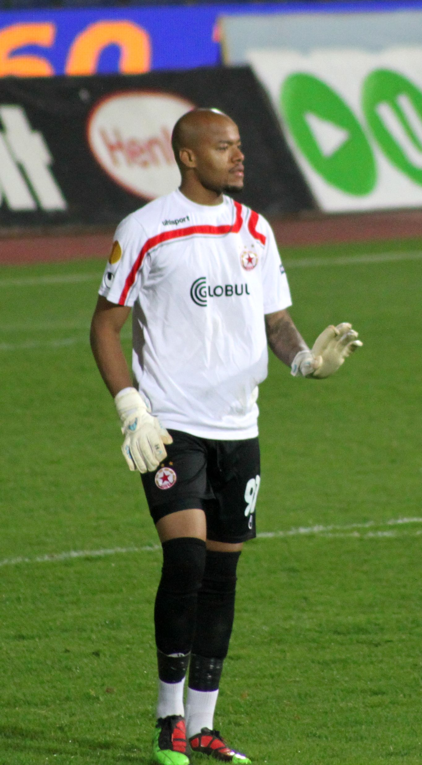 Raïs M'Bolhi Ouahab (born 25 April 1986), more commonly known as Raïs M'Bolhi, is an Algerian footballer of Algerian and Congolese descent, who currently plays as a goalkeeper for Bulgarian side CSKA Sofia. He also represents Algeria at international level.